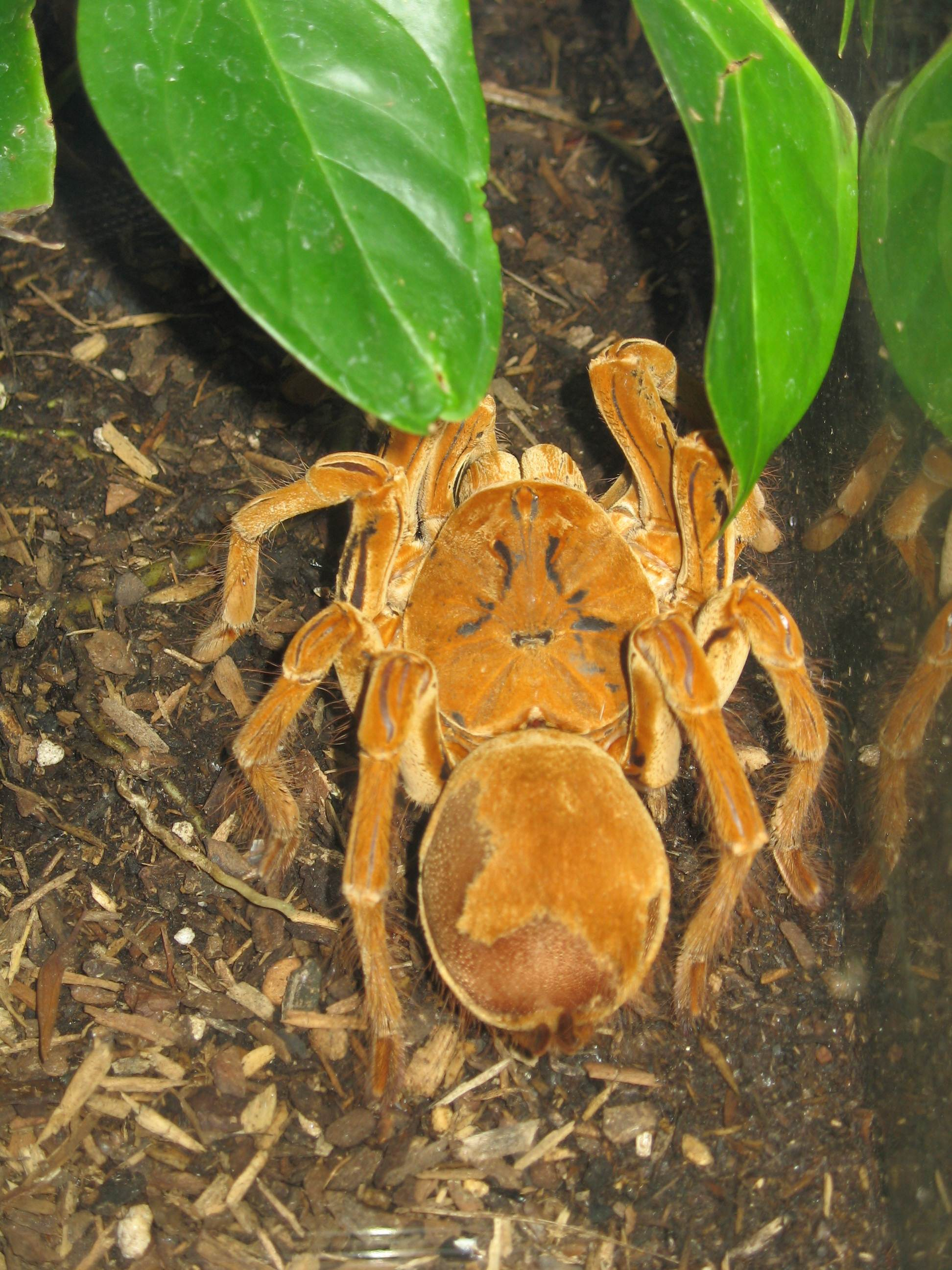 A Goliath bird-eating spider. This is the largest spider according to the Guinness World Records.